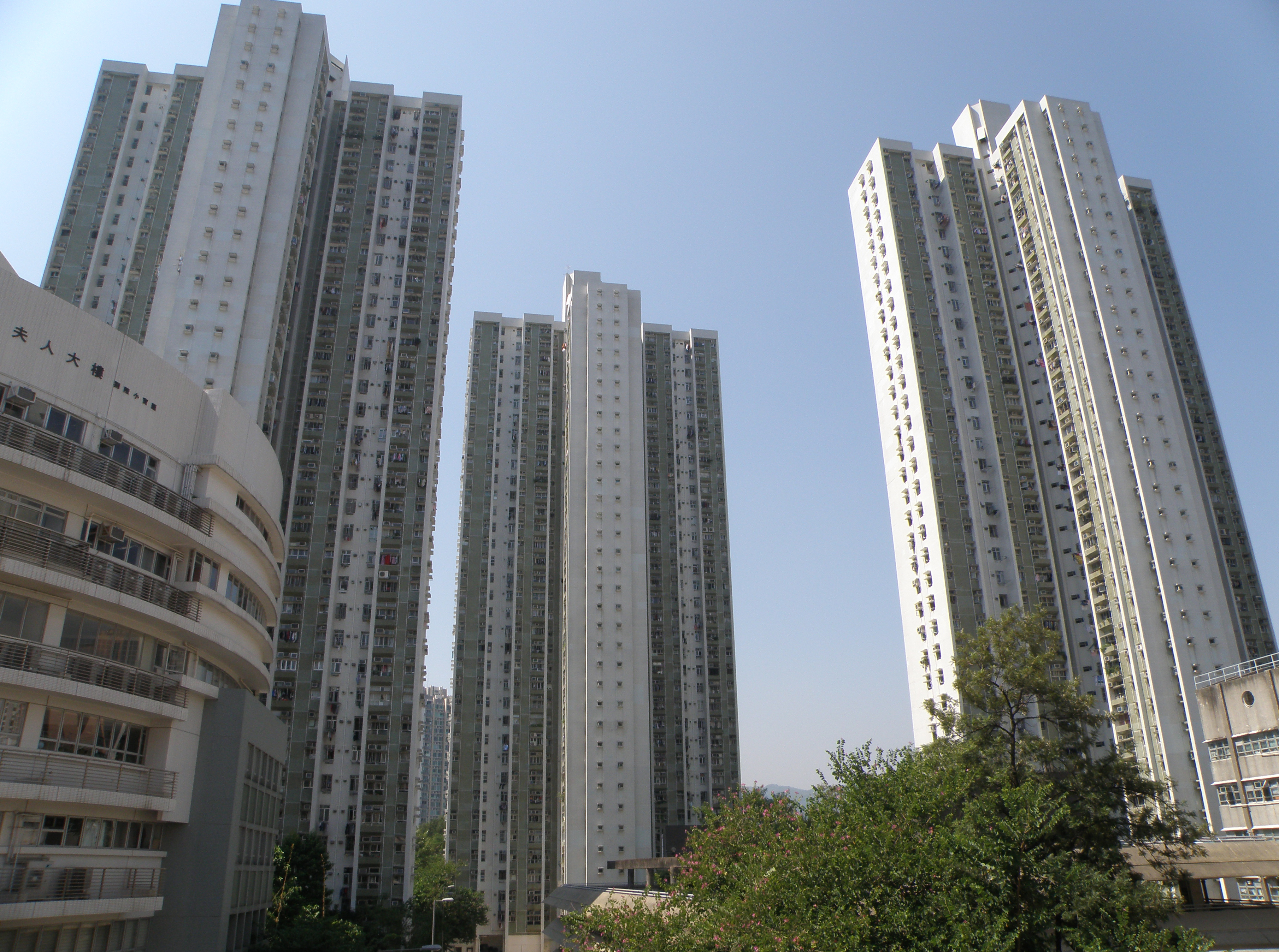 Kam On Court in Ma On Shan, Hong Kong.